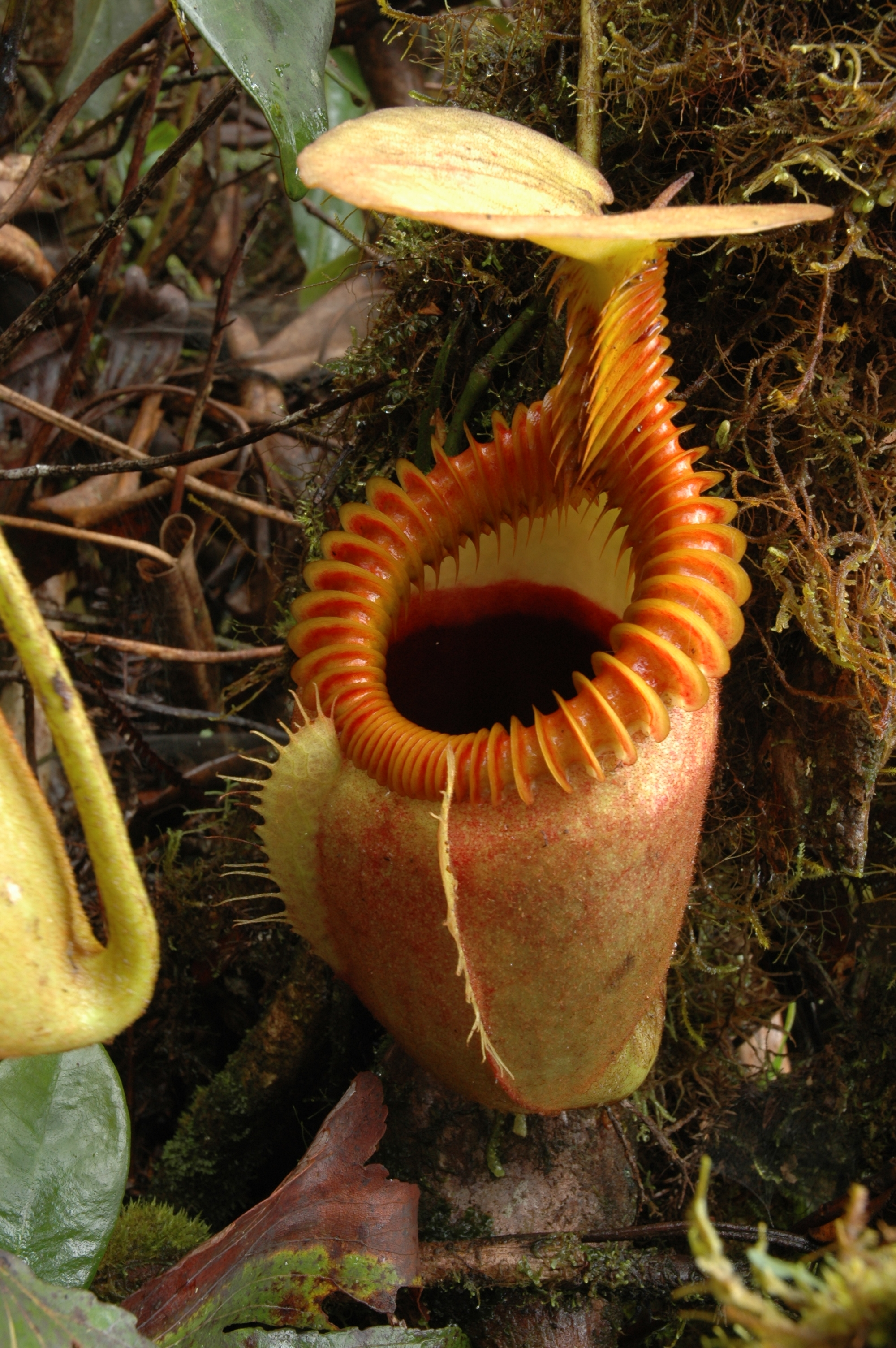 Nepenthes villosa Kinabalu by Jeremiah Harris